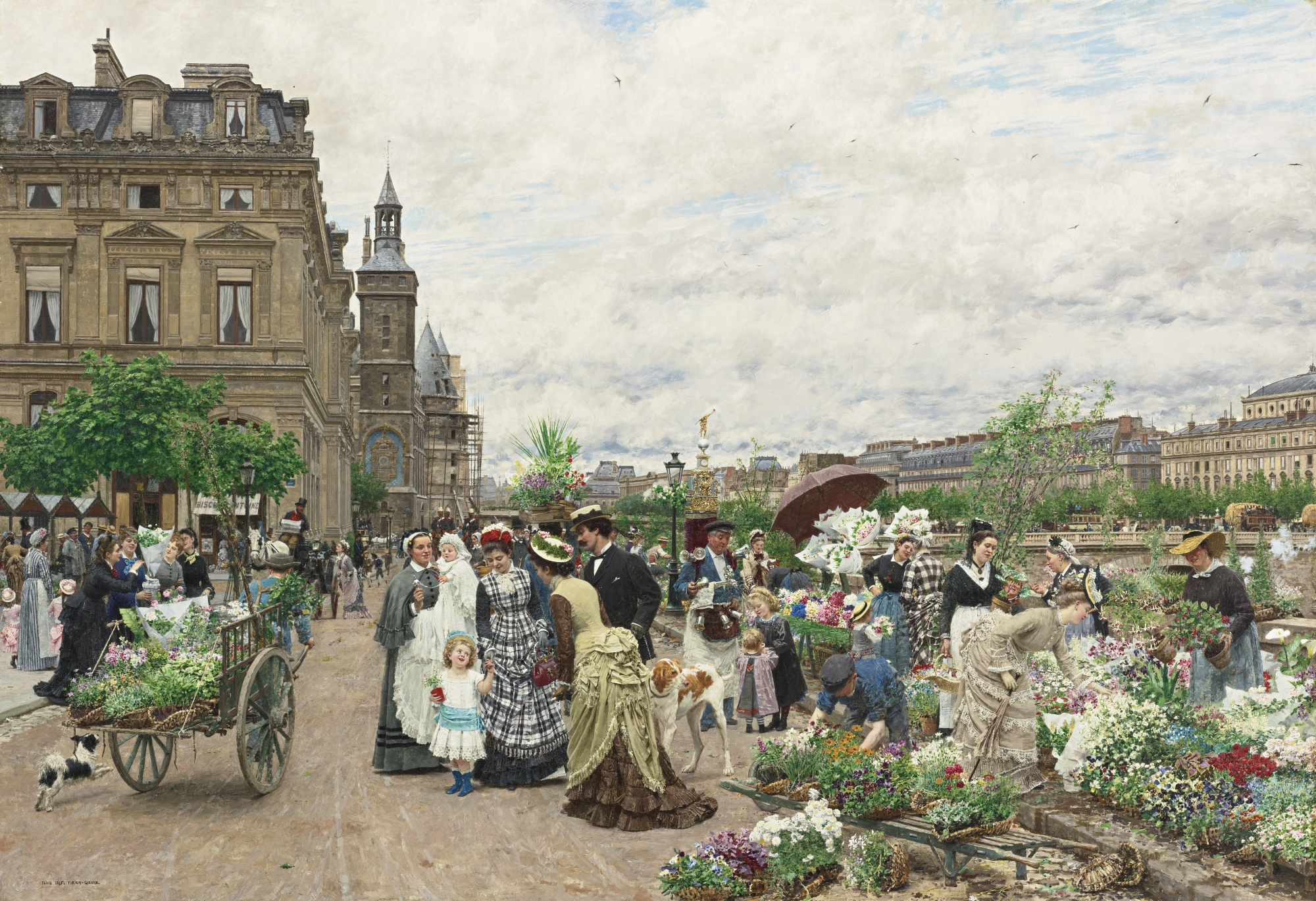 Flower market (Le quai aux fleurs, painting by Marie-François Firmin-Girard, 1875)